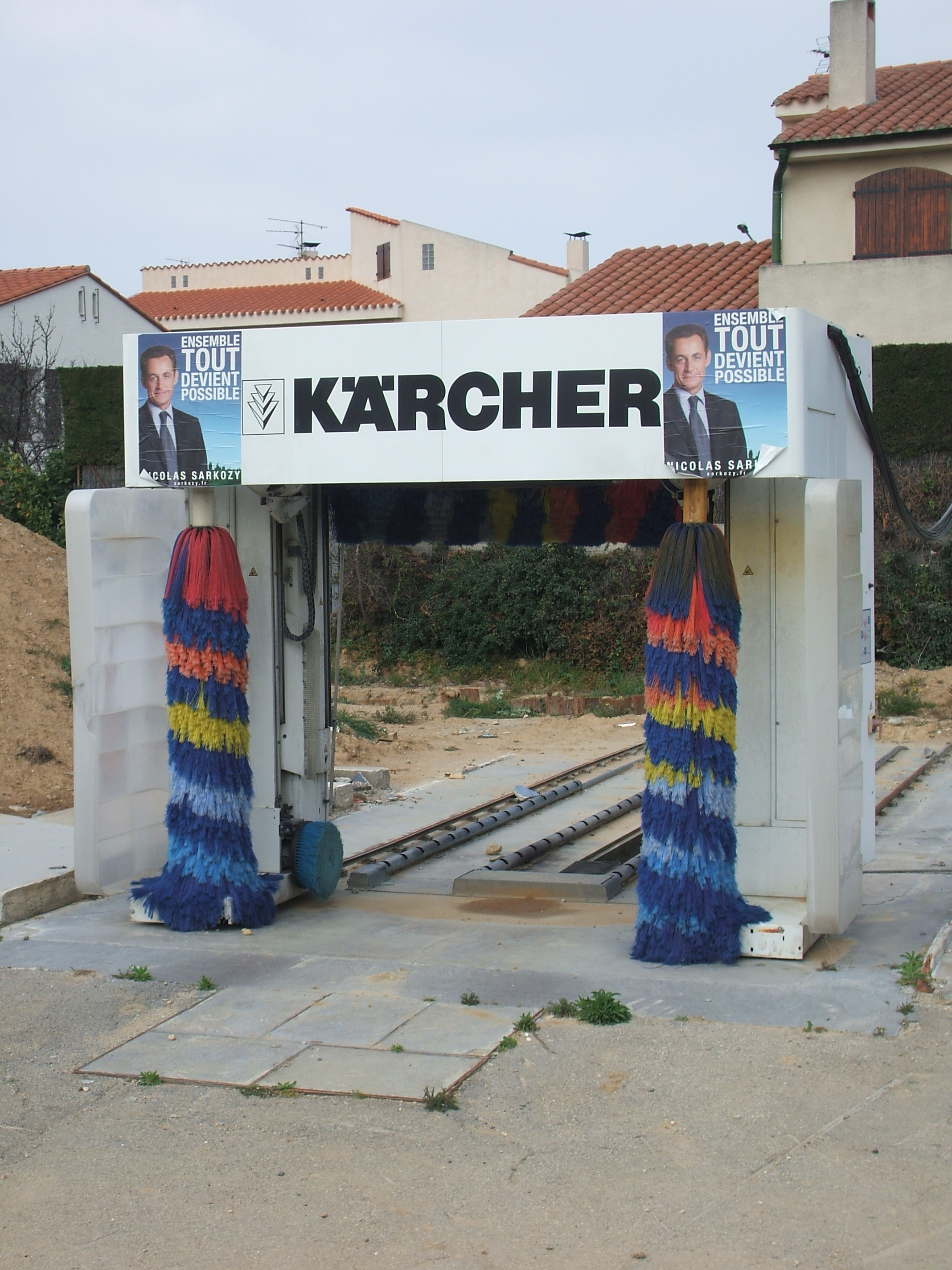 Street wit. Caricature of a Campaign. Nicolas Sarkozy's run for President in 2007. Las-Cobas, Perpignan, France.